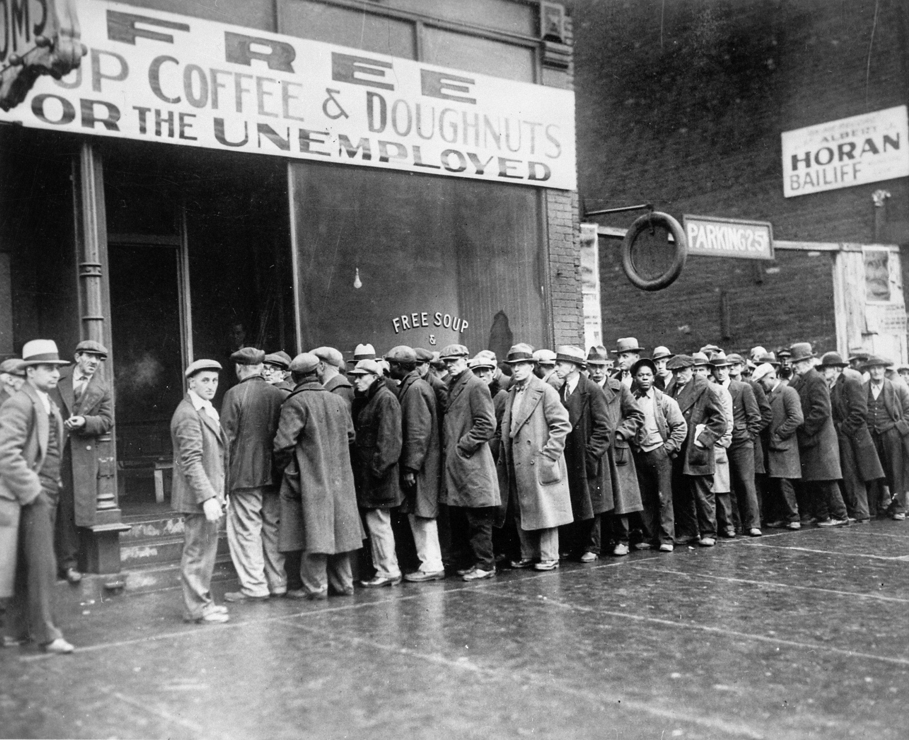 Scope and content: The storefront sign reads "Free Soup Coffee & Doughnuts for the Unemployed."